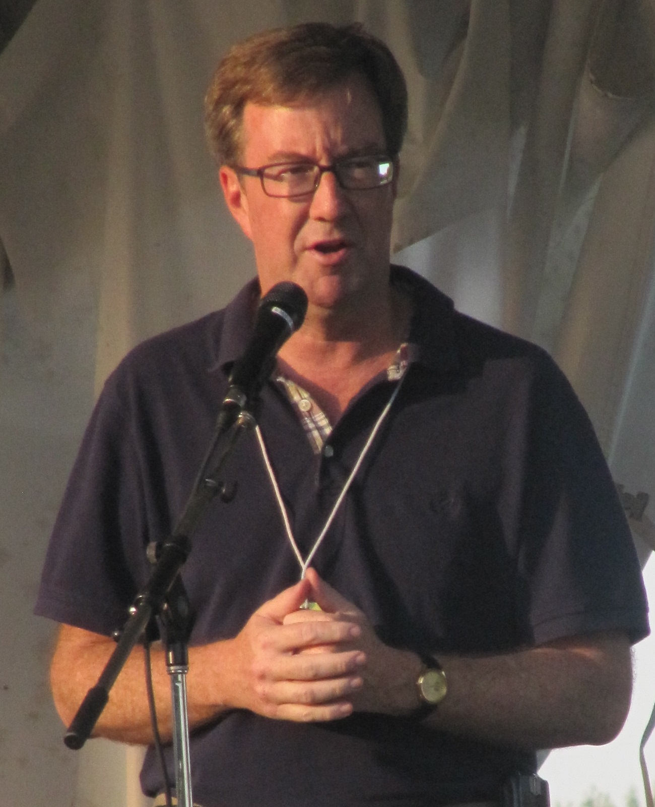 Cropped photo of "Jim Watson, MPP and former City of Ottawa Mayor speaking at the Ottawa Folk Festival."